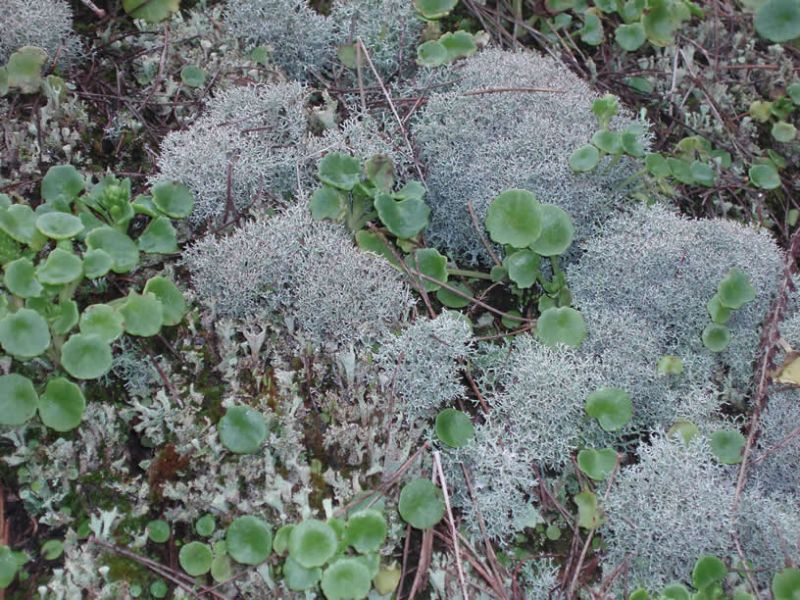 Cladonia ciliata